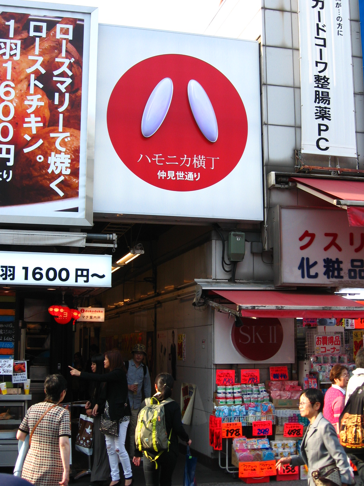 Harmonica side street by Kichijoji, Tokyo.